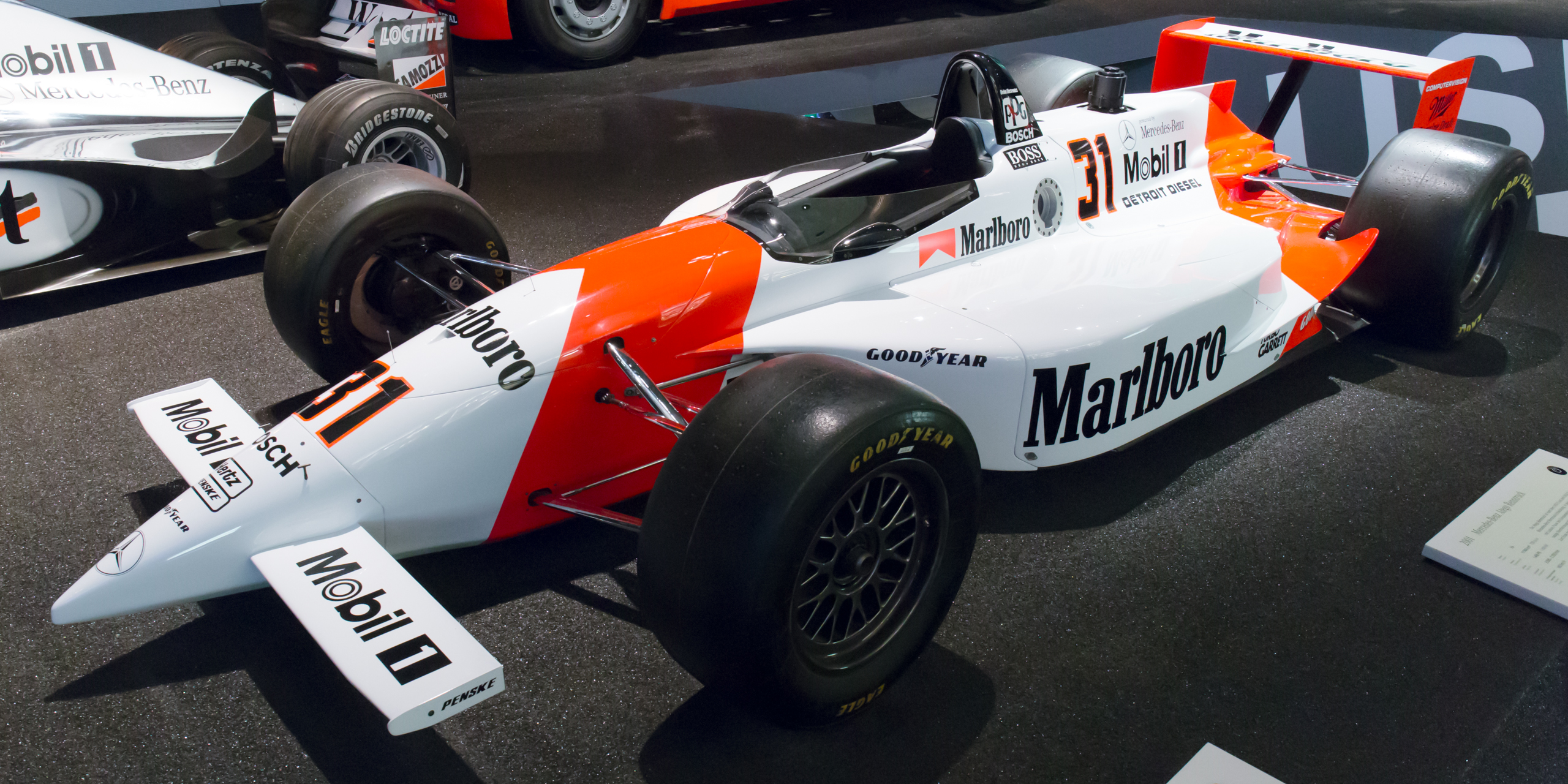 1994 Penske PC-23 (Al Unser, Jr.)